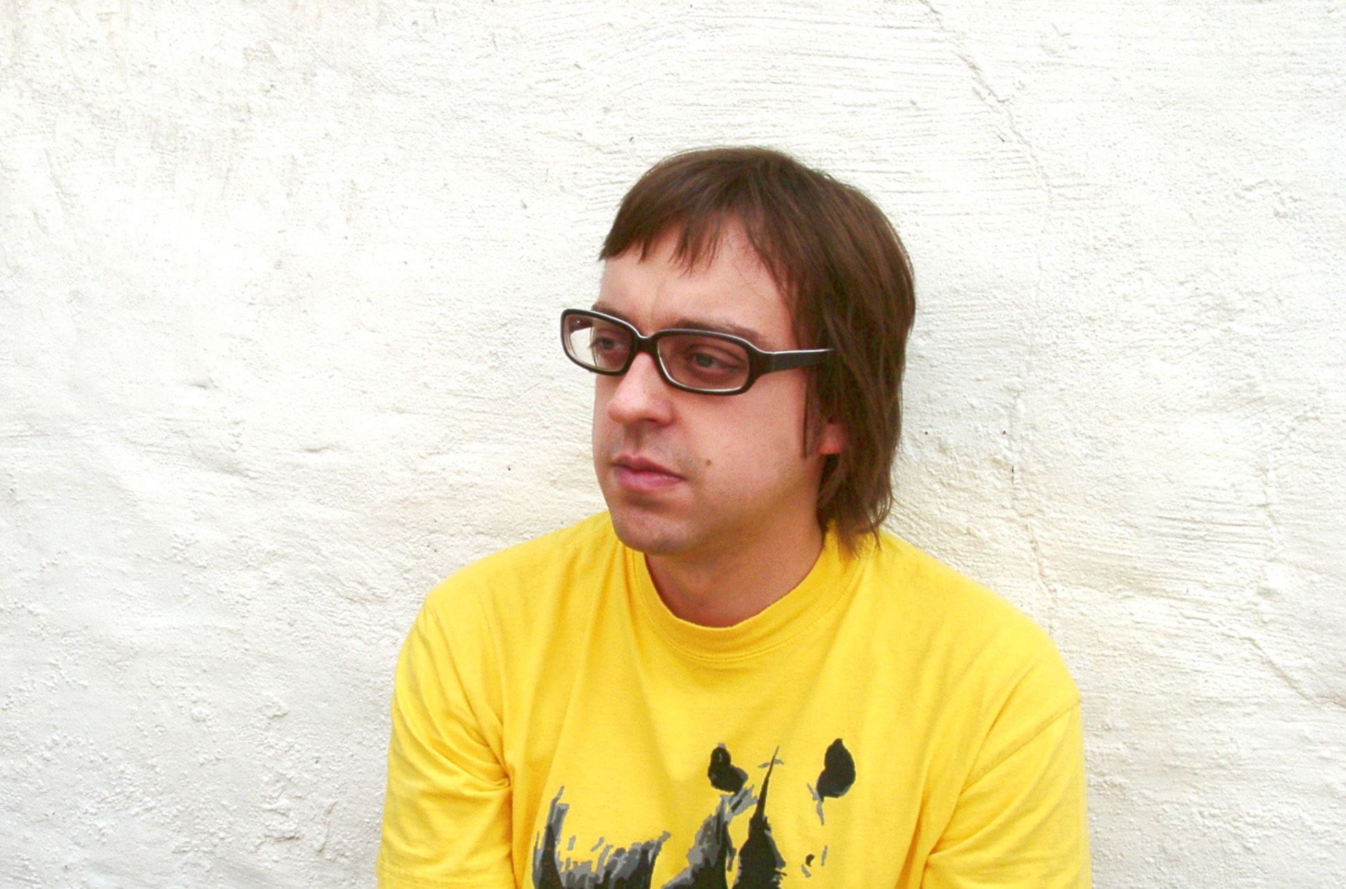 [A Swarm of Angels] creator, Matt Hanson. Biography (approx 100 words) Matt Hanson is a film futurist; a writer and filmmaker described as an "International film visionary" by Screen International magazine. His current open source filmmaking project -- A Swarm of Angels ( -- crowdsources the funding, creation, and distribution, of a feature film using the Internet and all-digital technologies. Previously he founded the massively influential onedotzero digital film festival in 1996 at the dawn of digital filmmaking, which he directed until 2002. He is the writer of a series of digital-age cinema books including The End of Celluloid, and Reinventing Music Video. A member of the Academy of Digital Arts and Sciences, he lives in Brighton, England.